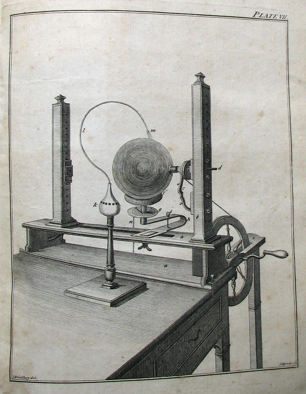 The 7th plate from the 1st edition (1768) of Joseph Priestley's A Familiar Introduction to the Study of Electricity, depicting an electrical machine designed by Priestley